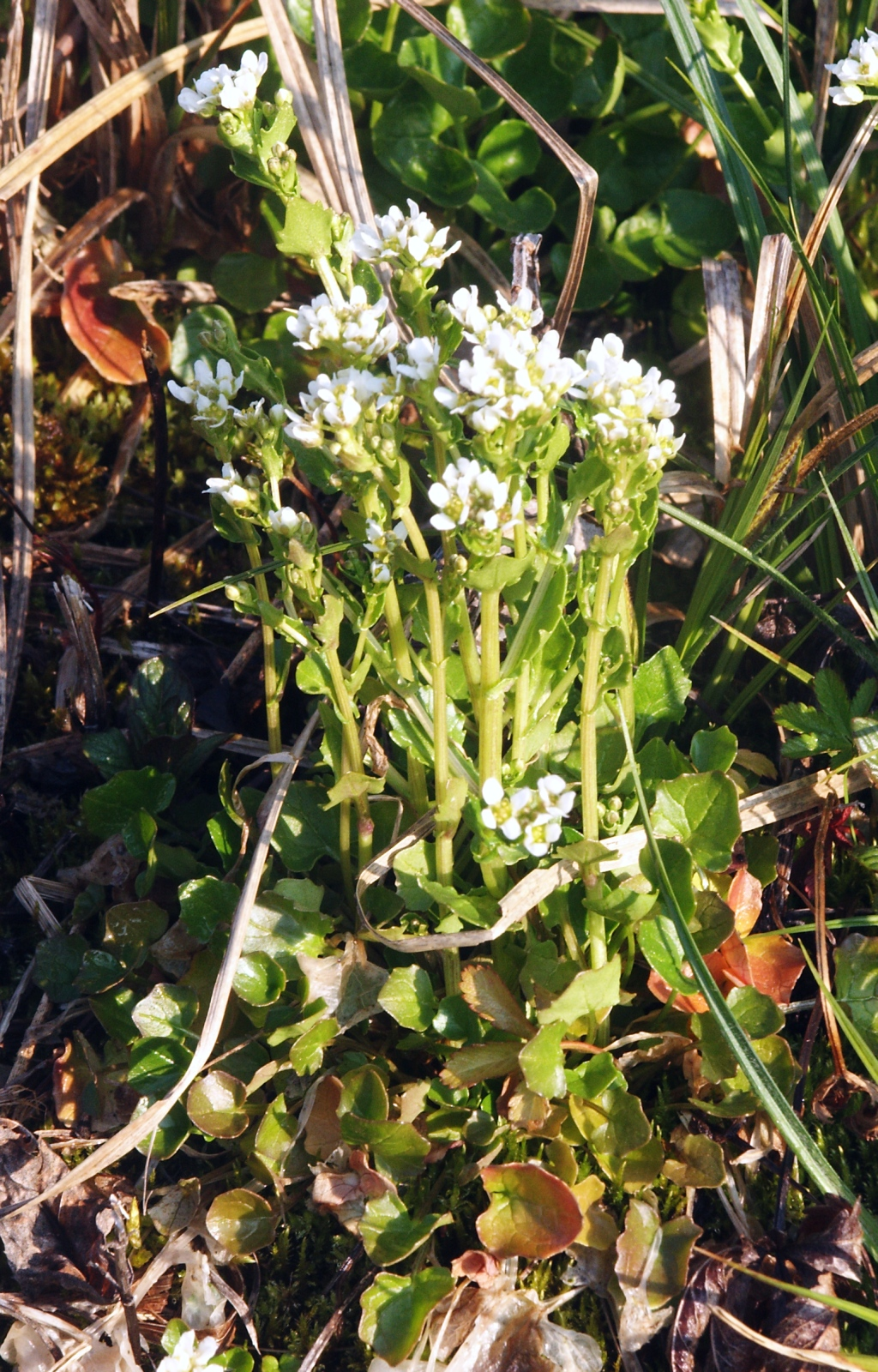 Cochlearia pyrenaica, Hohenloher Land, Germany